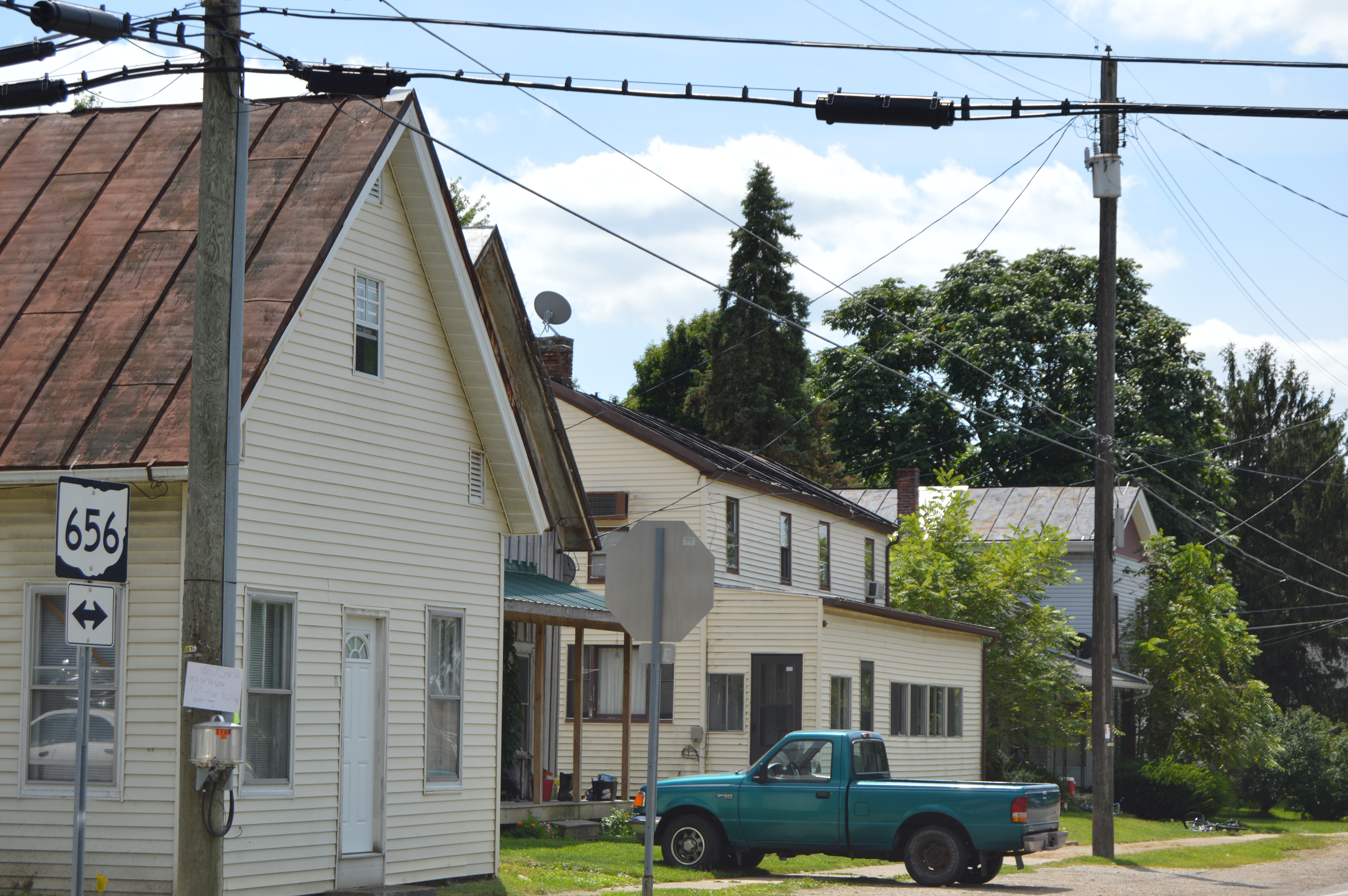 Houses on the southeastern side of Main Street (State Route 656) southwest of the Church Street intersection in Sparta, Ohio, United States.